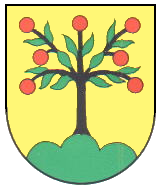 Coat of arms of Obersasbach in Sasbach (Ortenau)